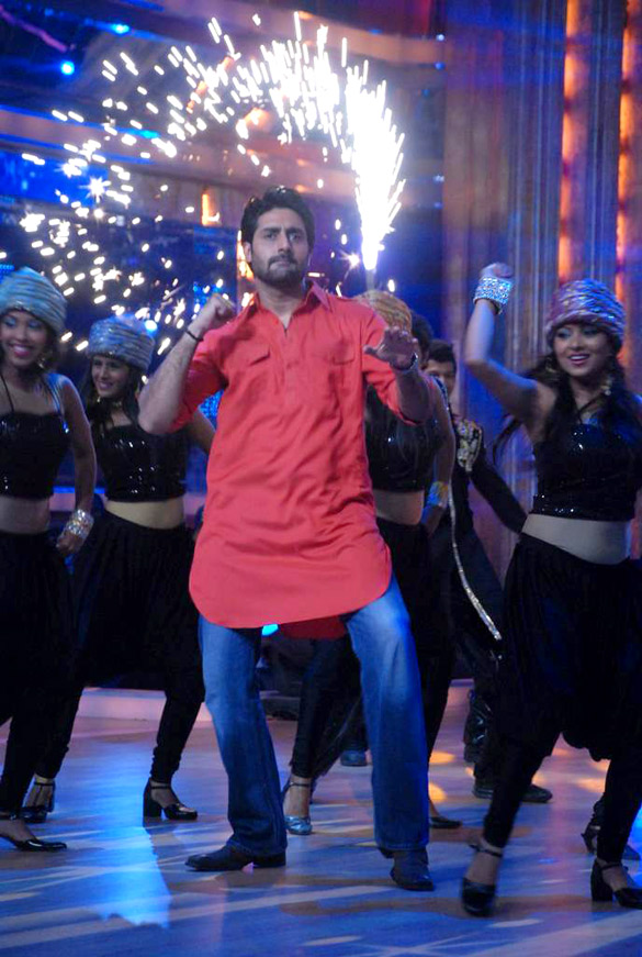 Abhishek Bachchan on the sets of 'Jhalak Dikhhlaa Jaa 5'